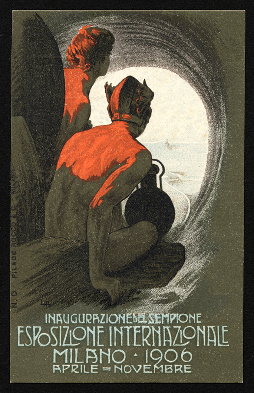 Poster for the 1906 International Exhibition held in Milan, Italy. Pilade Rocco & C. (publisher)